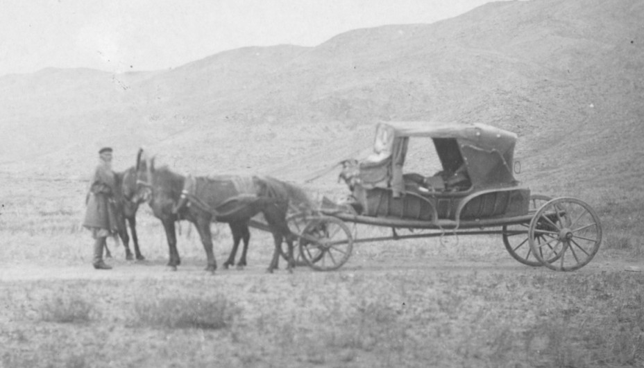 Tarantass (a type of Russian carriage) in Siberia